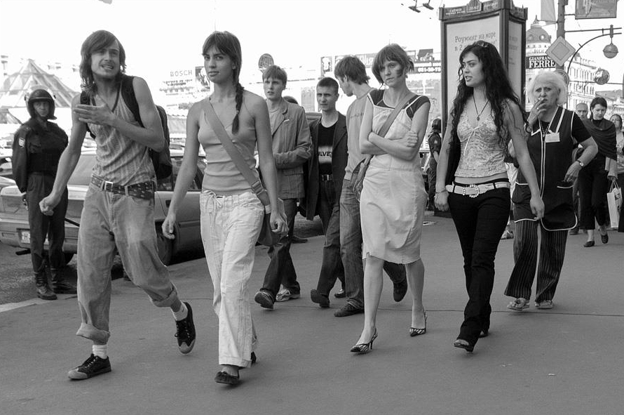 Pyotr Verzilov and Nadezhda Tolokonnikova (Dissenters' March; 2007-06-11; Denis Bochkarev).